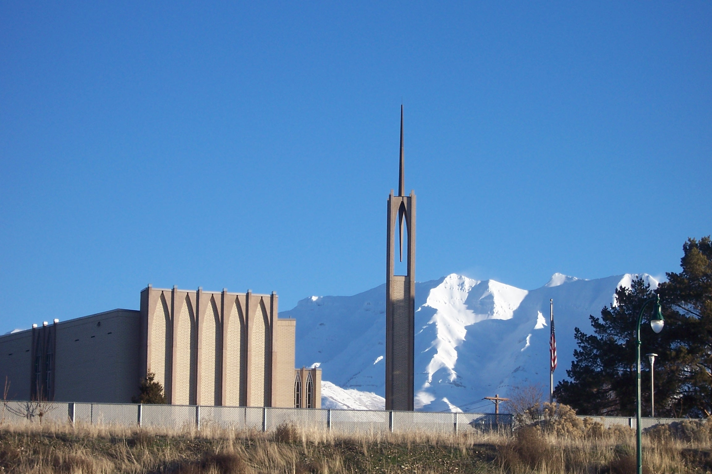 LDS Chapel at South 400 West and West University Parkway in Orem, Utah, set against the winter background of the snow-covered Wasatch Range.